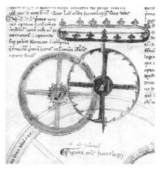 Drawing of the verge escapement in Giovanni de Dondi's astronomical clock the 'Astrarium', built 1348-1364, Padua, Italy. From Tractatus Astrarii, a manuscript by Giovanni de Dondi around 1364. The caption claims this is the earliest existing drawing of a verge escapement. The crown shaped wheel at top is the clock's balance wheel, which had an oscillation period of 4 seconds. The escapement is just below it. The crown wheel is drawn with 24 teeth, which must have been an error, because verge escapements require an odd number of teeth to operate. Alterations to image: cropped out caption, converted to JPEG.